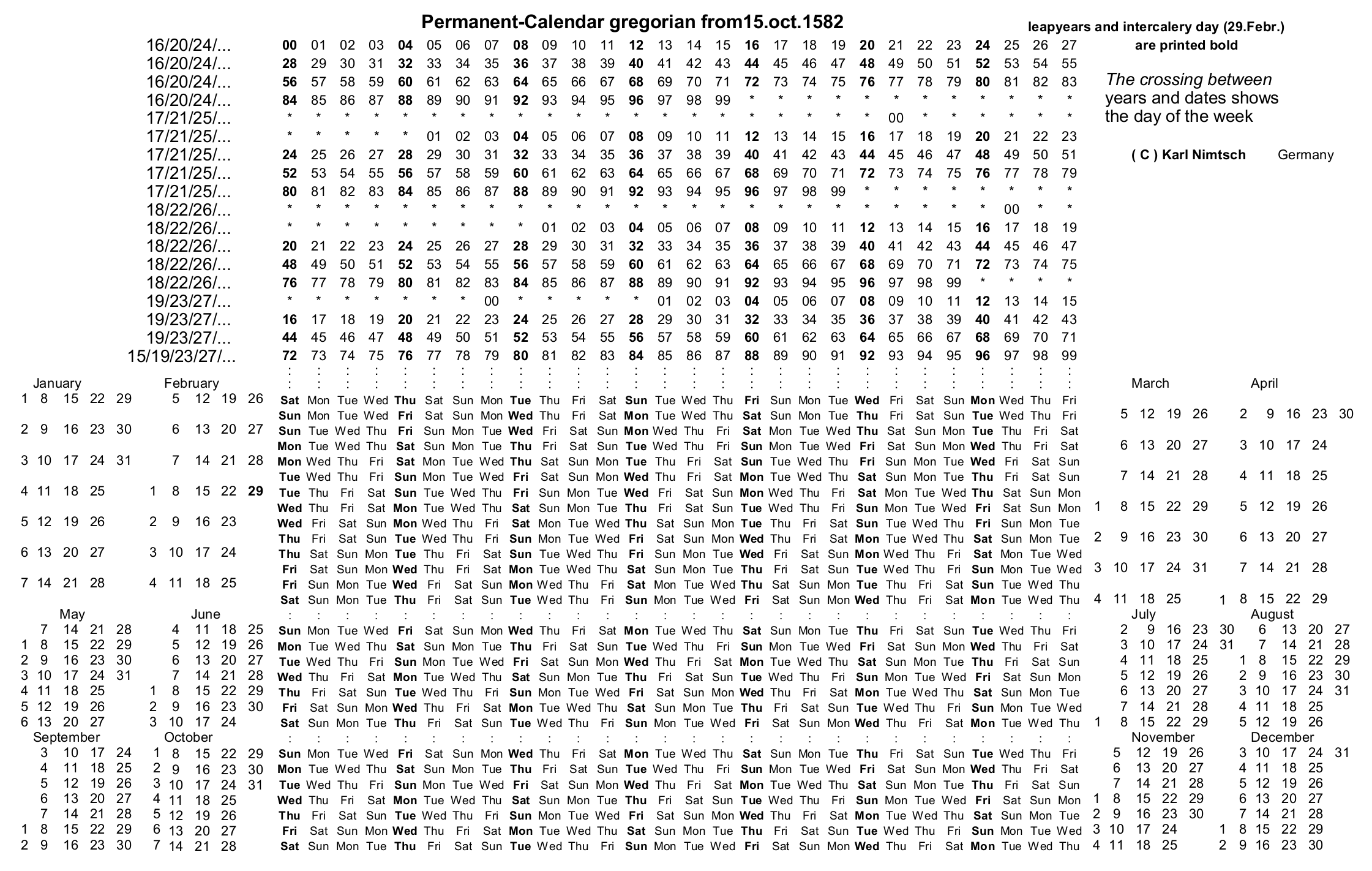 This file replaces the corresponding SVG-file; it contains bugs: the intercalary day and leap years are not printed boldface, the text "...hundred" was only used in German language by the year 1999. In addition, it isn't quite "permanent" since it only goes up to the long year 02799.